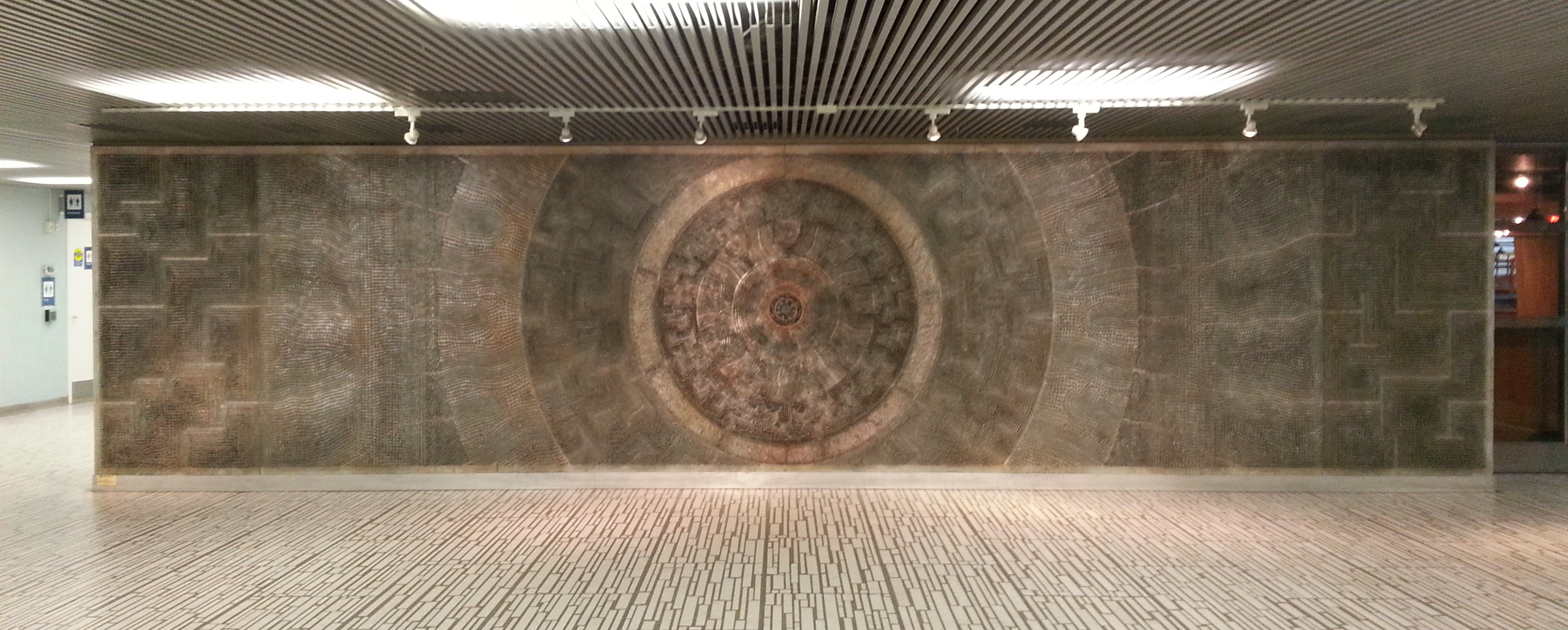 Metropolis by David Partridge (1977), 924 cm x 227.3 cm; aluminum sheathing over plywood, with copper and galvanized nails